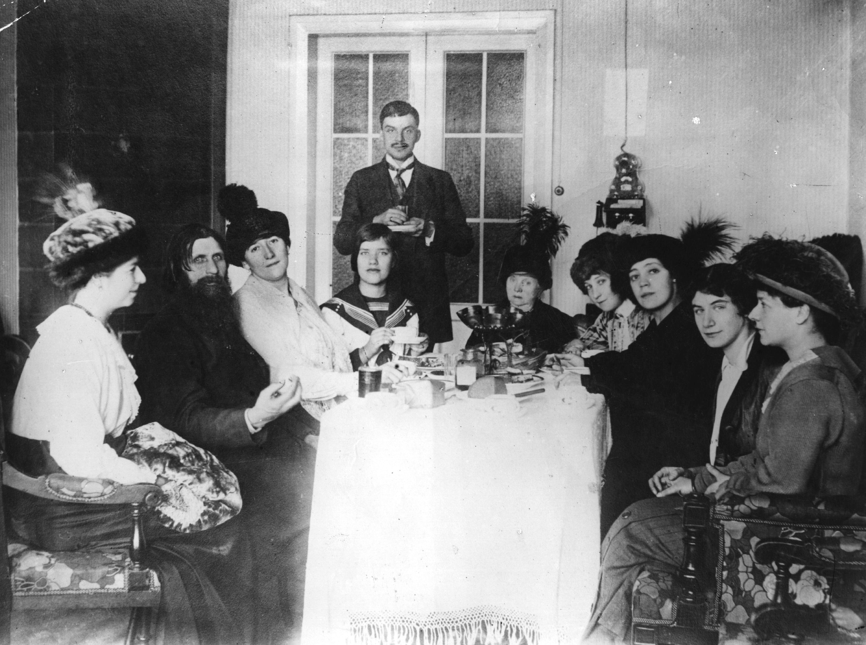 Grigory Rasputin with his followers in St. Petersburg